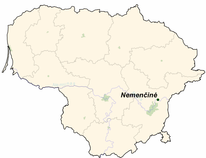 Nemenčinė on the map of Lithuania